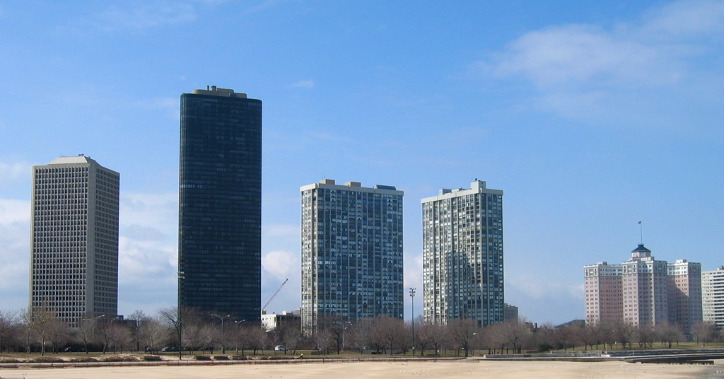 Site of the Edgewater Beach Hotel. At the far left the 33 floor The Breakers of Edgewater Beach, a retirement home built in 1987, stands where the 19 story tower of the hotel once stood. Next to it the 54 floor 5415 North Sheridan tower stands where the original 1916 X-shaped hotel building stood. On the far right, the Edgewater Beach Apartments, which were added to the hotel complex in 1927, still stand. In between, the two 38 floor towers of Edgewater Plaza North and Edgewater Plaza South stand on what were the grounds of the resort.